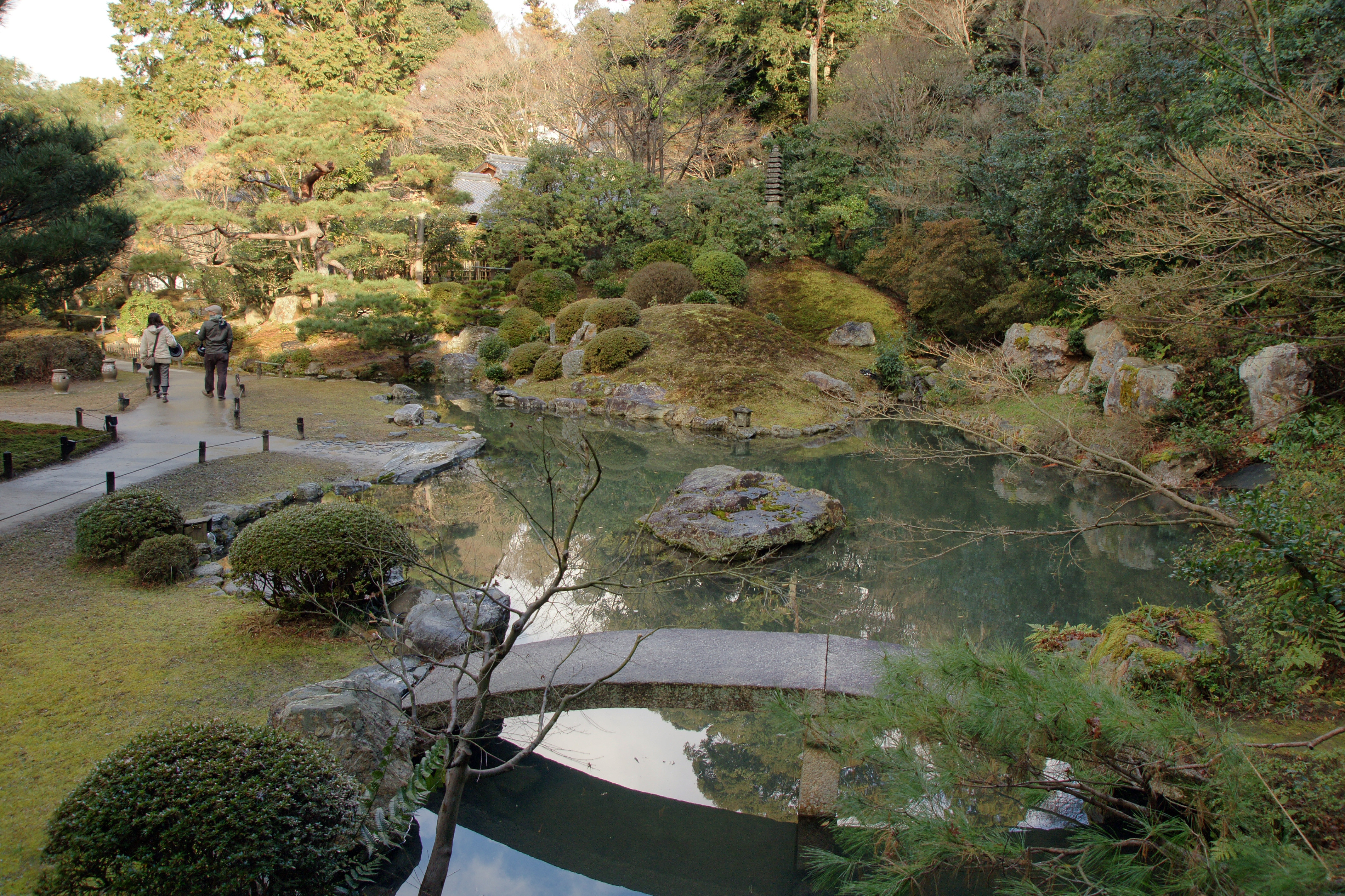 Shōren-in, Kyoto, Kyoto Prefecture, Japan